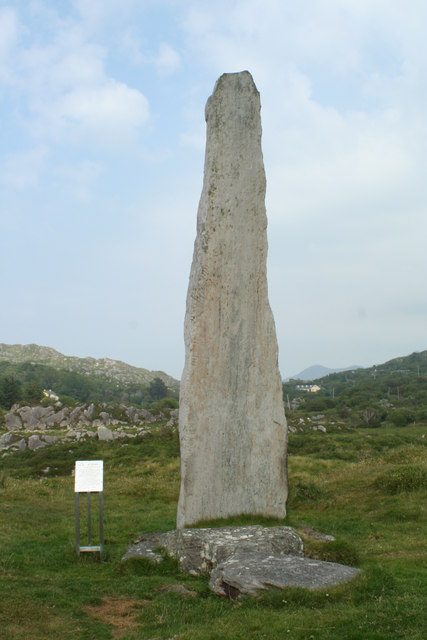 Ballycrovane Ogham stone Tallest ogham stone in the world - over 17ft high.